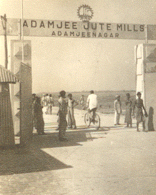 Adamjee Jute Mills Entrance 1950, Adamjee Nagar. (Now Narayanganje)